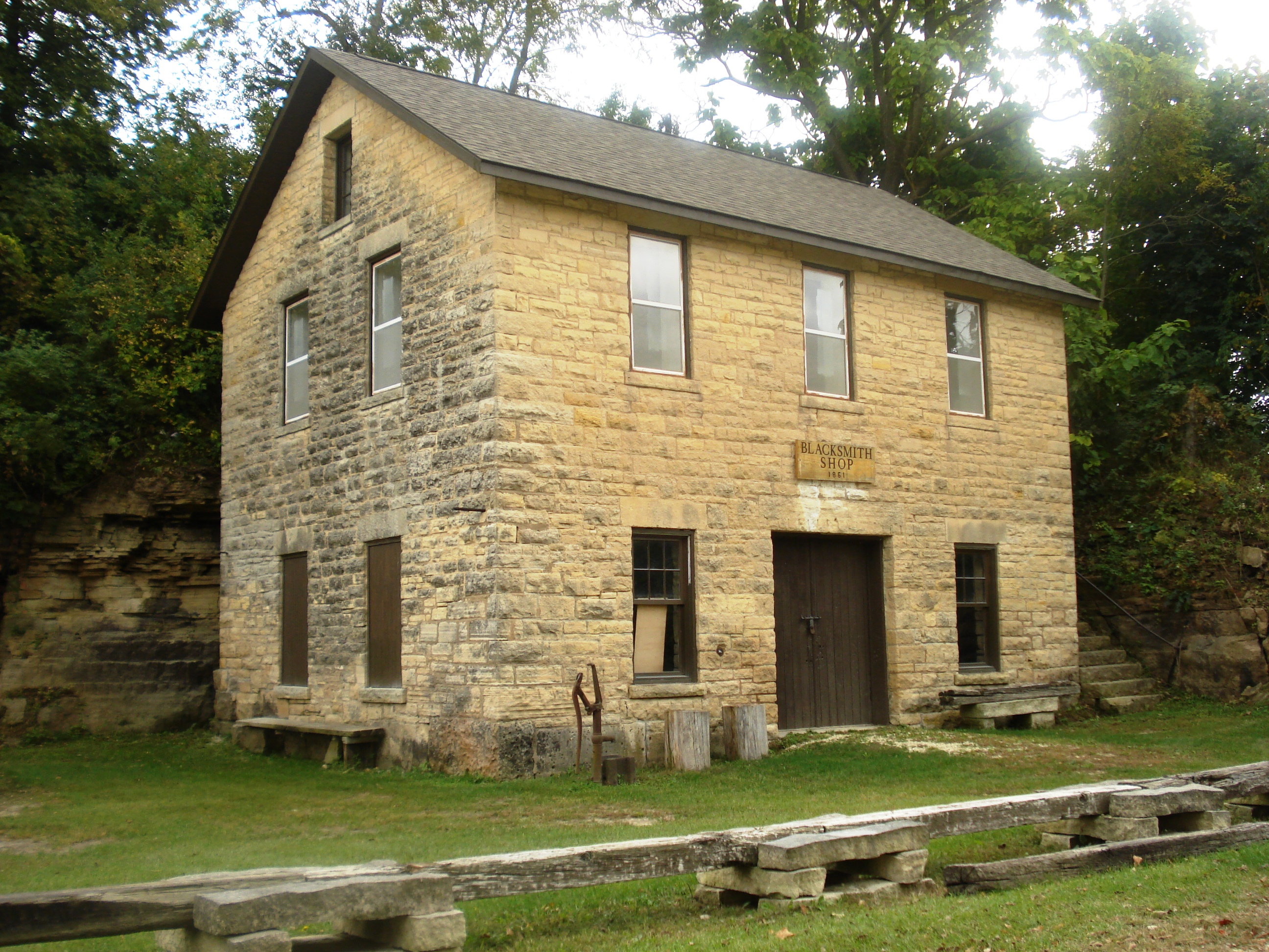 Built by Henry Dearborn. Located west of the Dearborn residence in Stone City, Iowa.